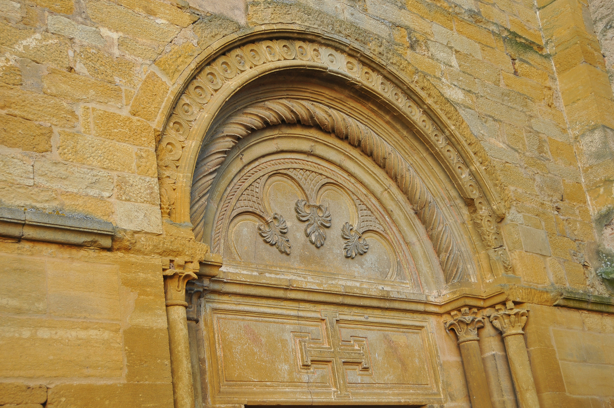 La Benisson Dieu - Detail of the porch with acanthus leaves and the cross